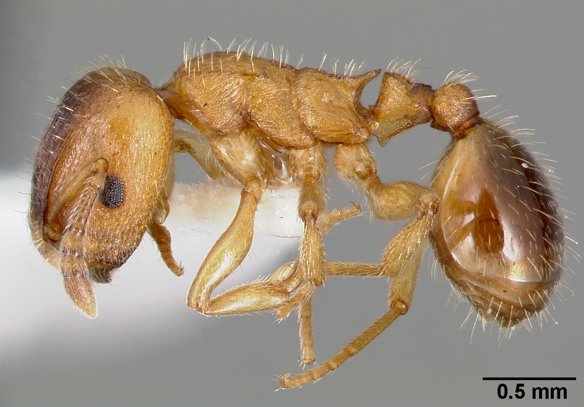 Profile view of ant Harpagoxenus canadensis specimen casent0006075.